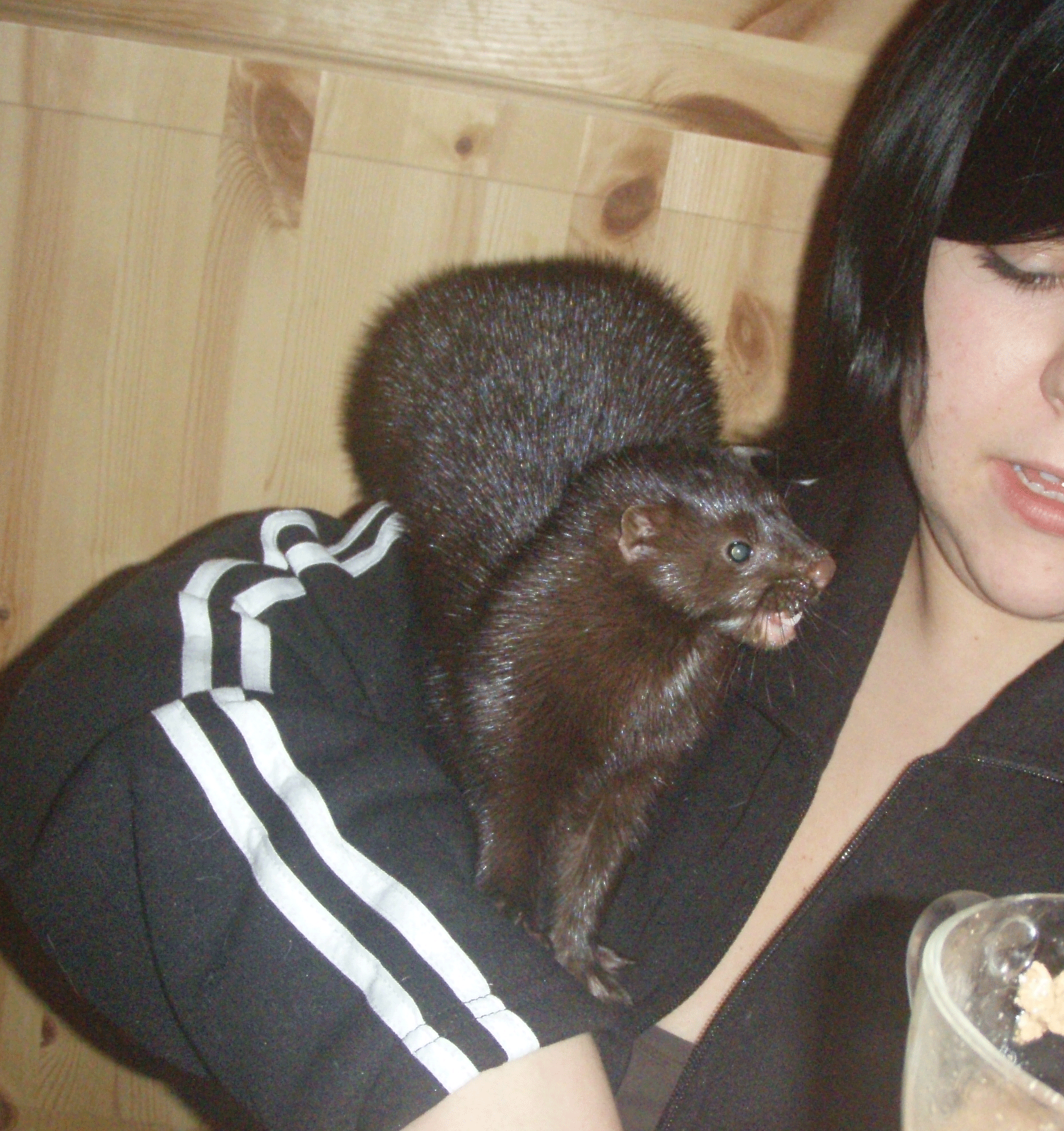 Mustela Vison, American Mink, Pet